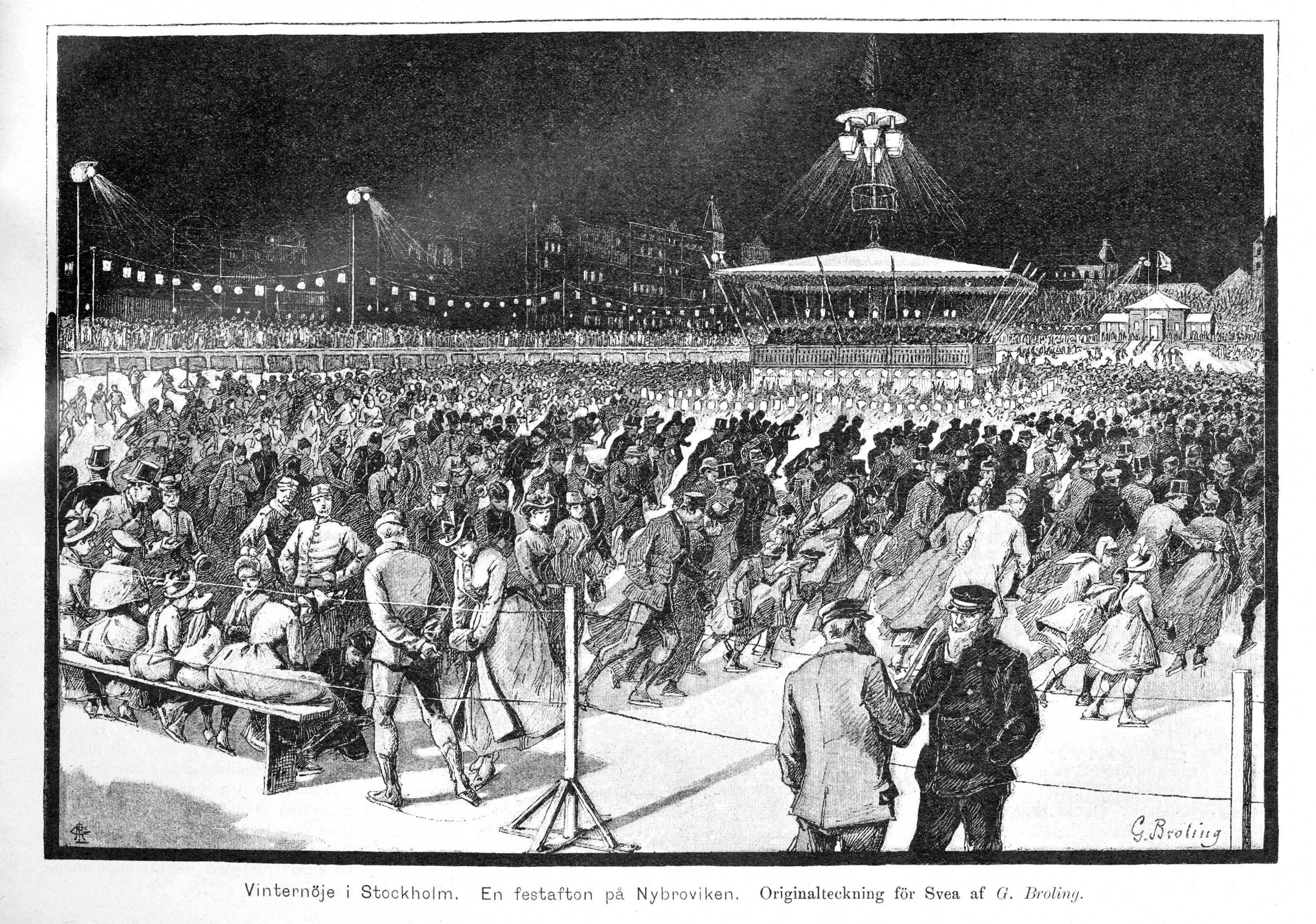 Nybroviken in Stockholm 1891